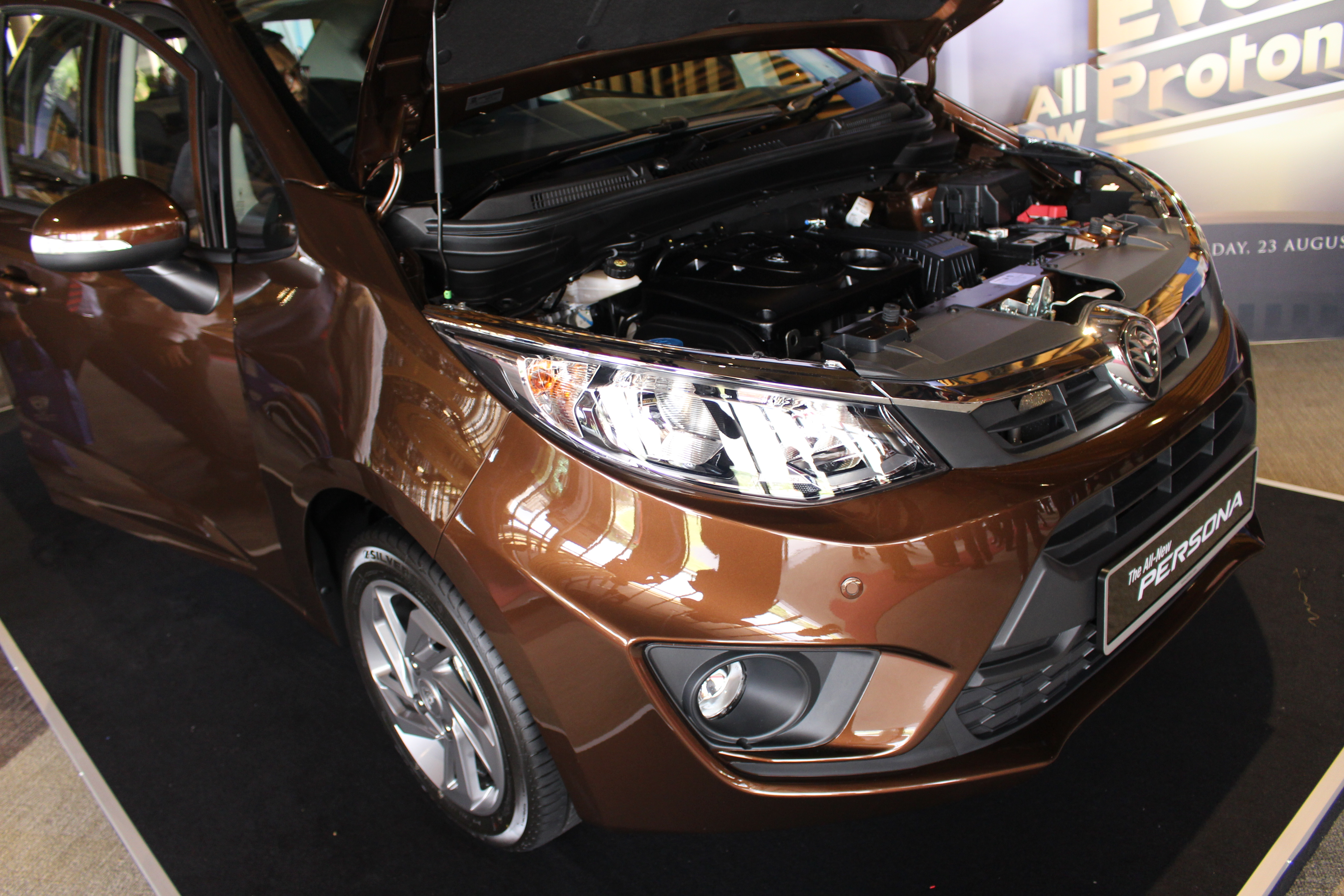 Only one engine is available, a Proton-engineered 1.6-litre naturally aspirated unit, first used in the Iriz. However, it has been refined for better NVH attributes. The Getrag 5MT and Punch CVT have also been carried over from the Iriz. And similarly, Proton has refined the CVT for a smoother drive. Fuel efficiency has also improved 10% to 6.1L/100km with the CVT, and 13% to 5.6L/100km for the manual.